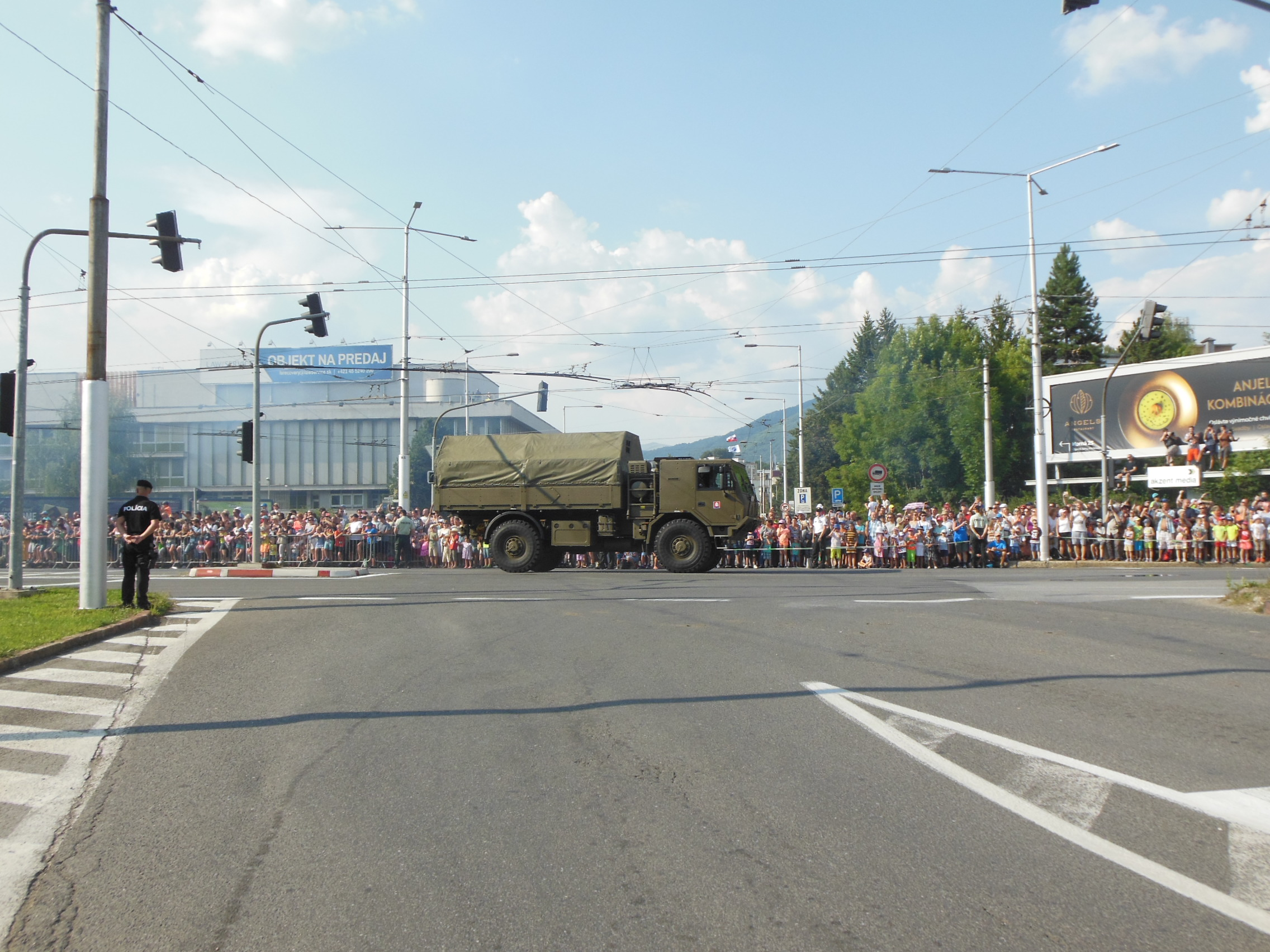 75th Anniversary of the Slovak National Uprising Celebrations in Banská Bystrica, Slovakia. Military parade on Štefánikovo nábrežie.